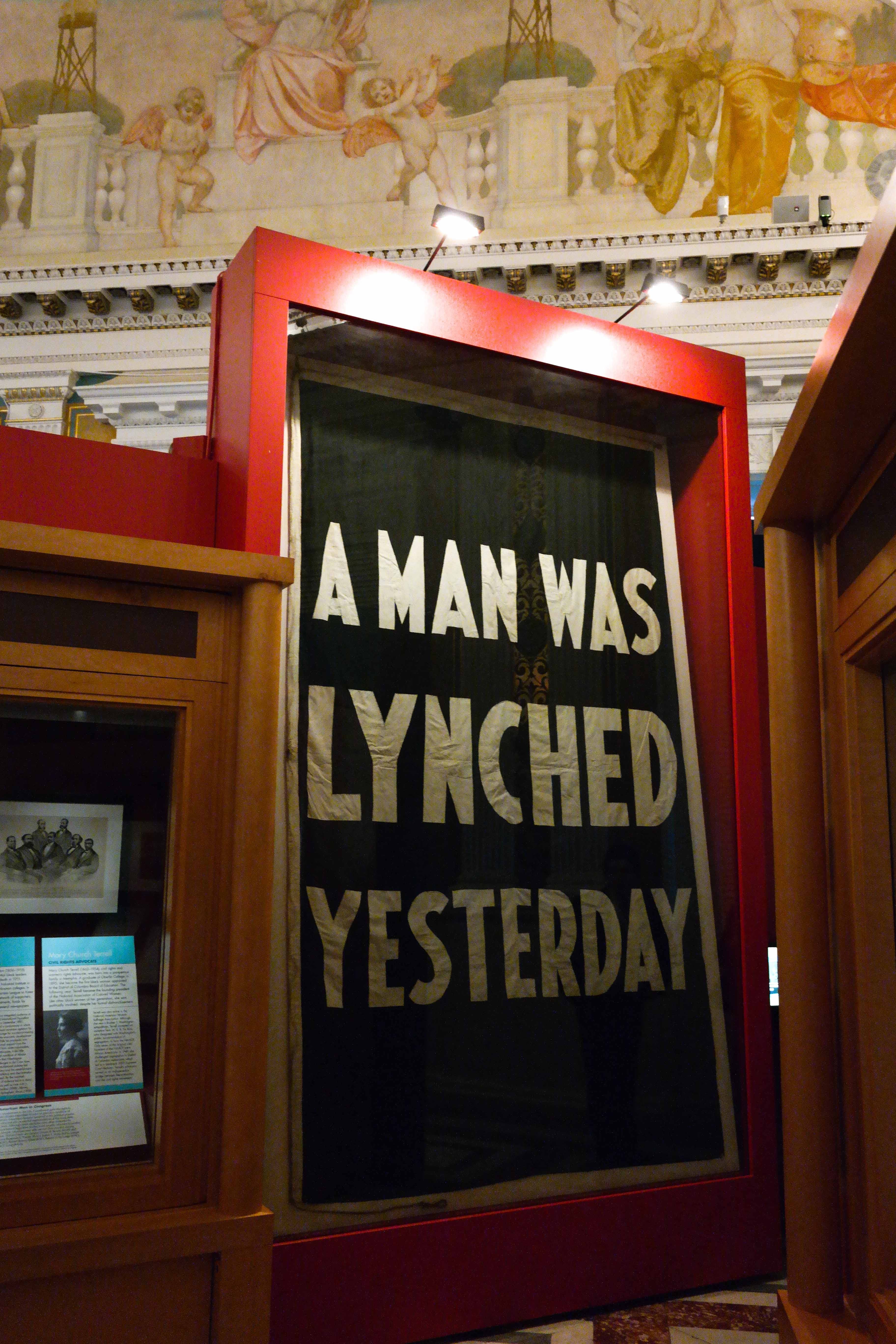 A civil rights exhibit at the Thomas Jefferson Building at the Library of Congress in Washington, DC, includes a replica of the 1920 flag displayed by the NAACP when a lynching occurred in the United States